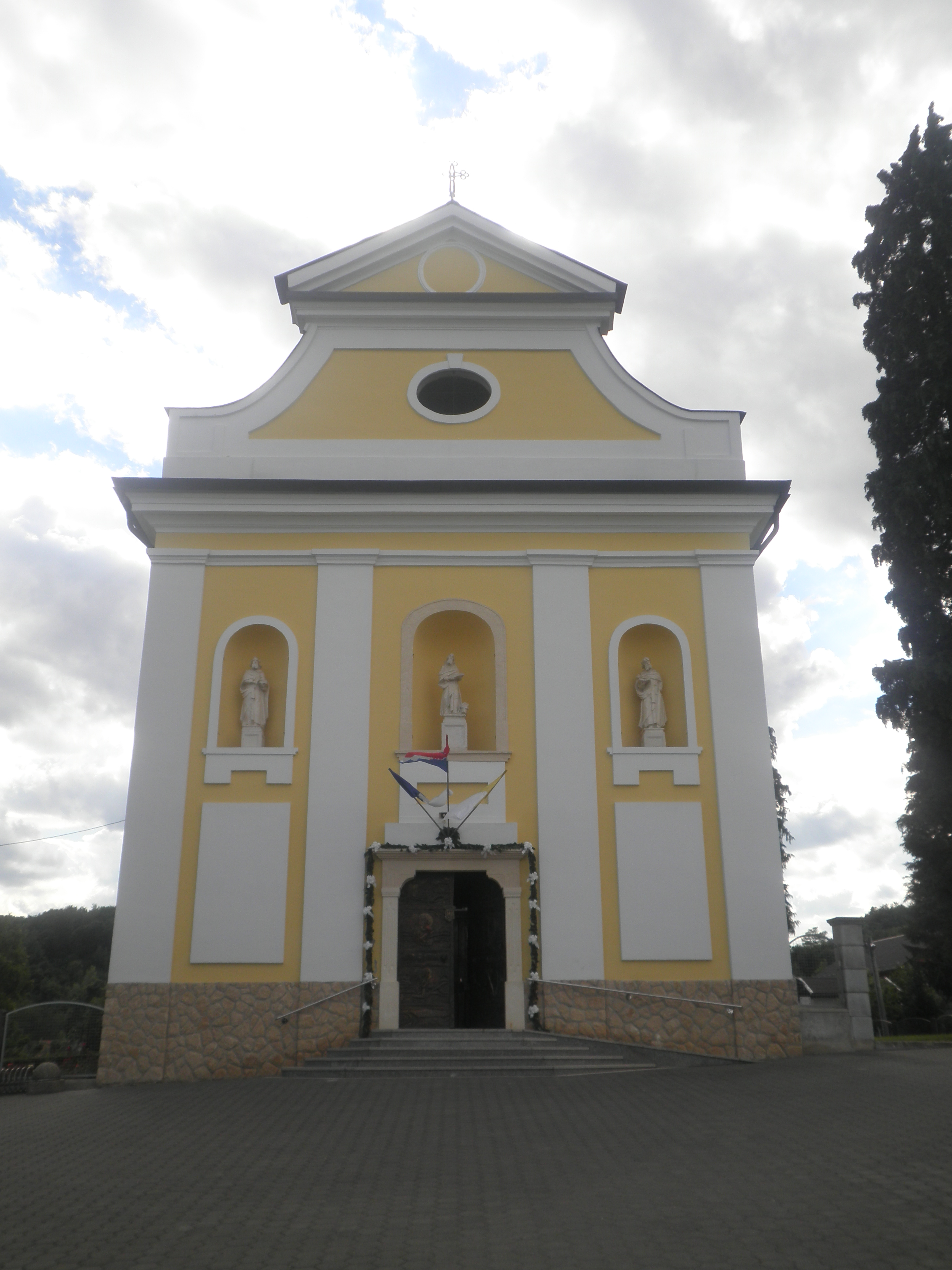 St. Mark's church in Marčan, Vinica, Varaždin